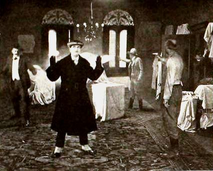 Still from the American western film serial Vanishing Trails (1920) starring Franklyn Farnum, on page 4024 of the May 8, 1920 Motion Picture News.